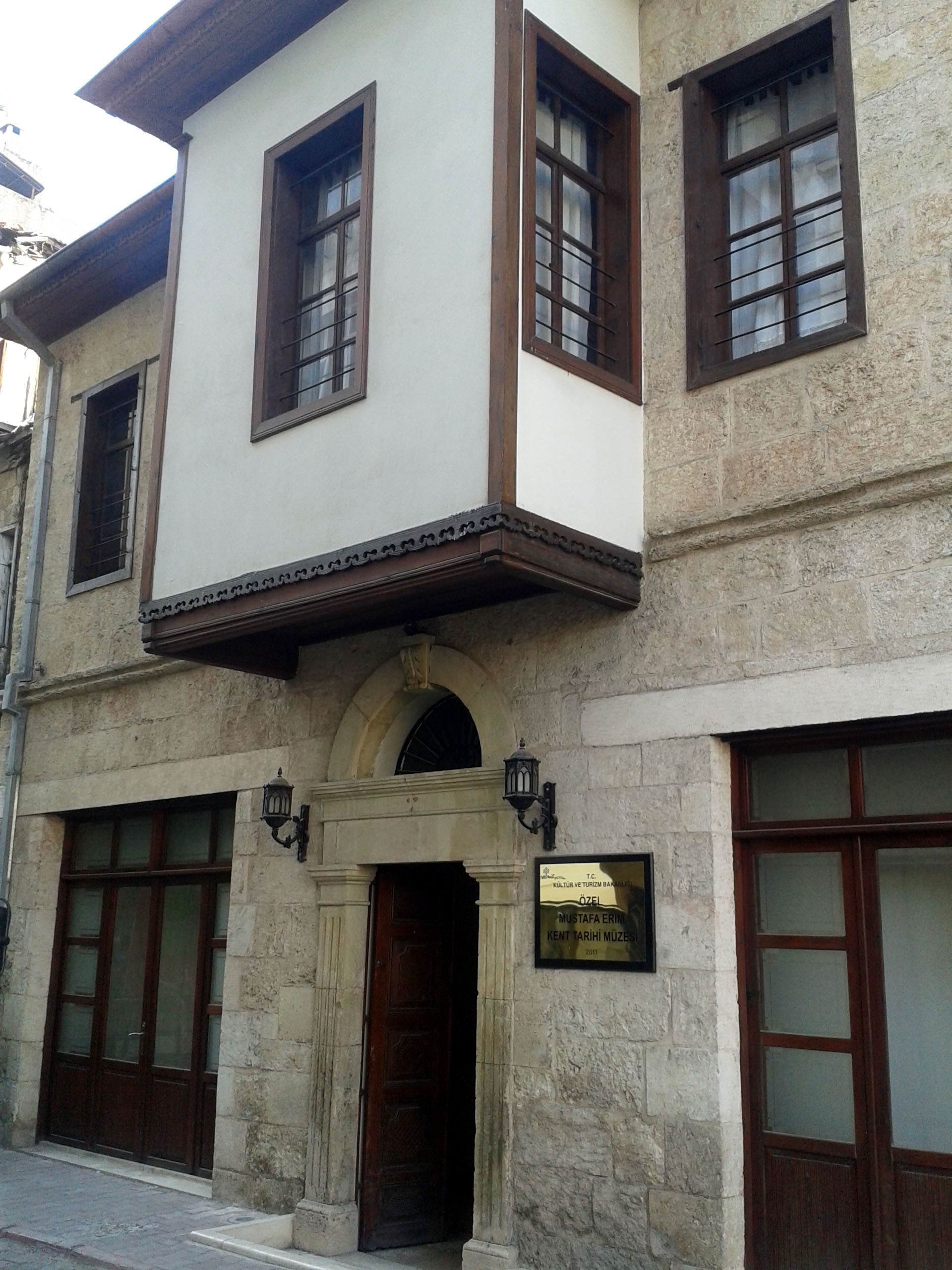 Mersin Urban History Museum gate, Turkey